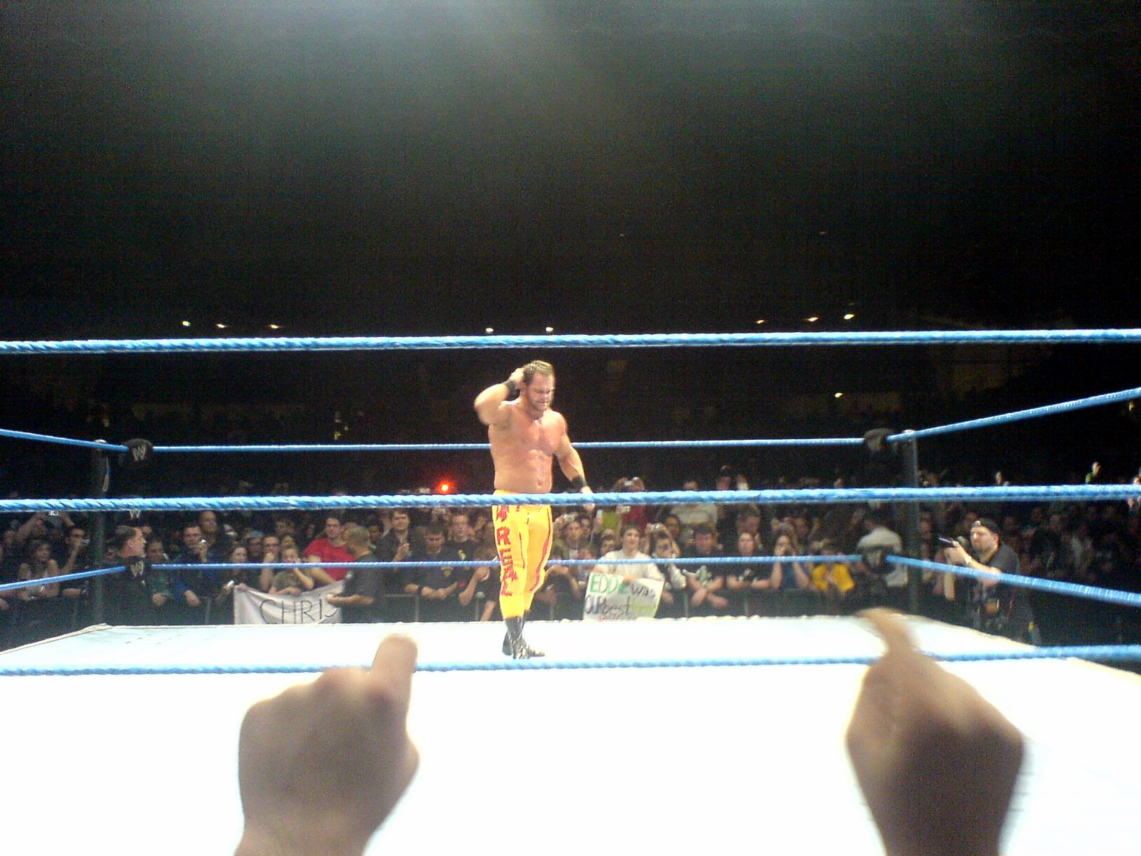 chris benoit wrestling in stuttgart